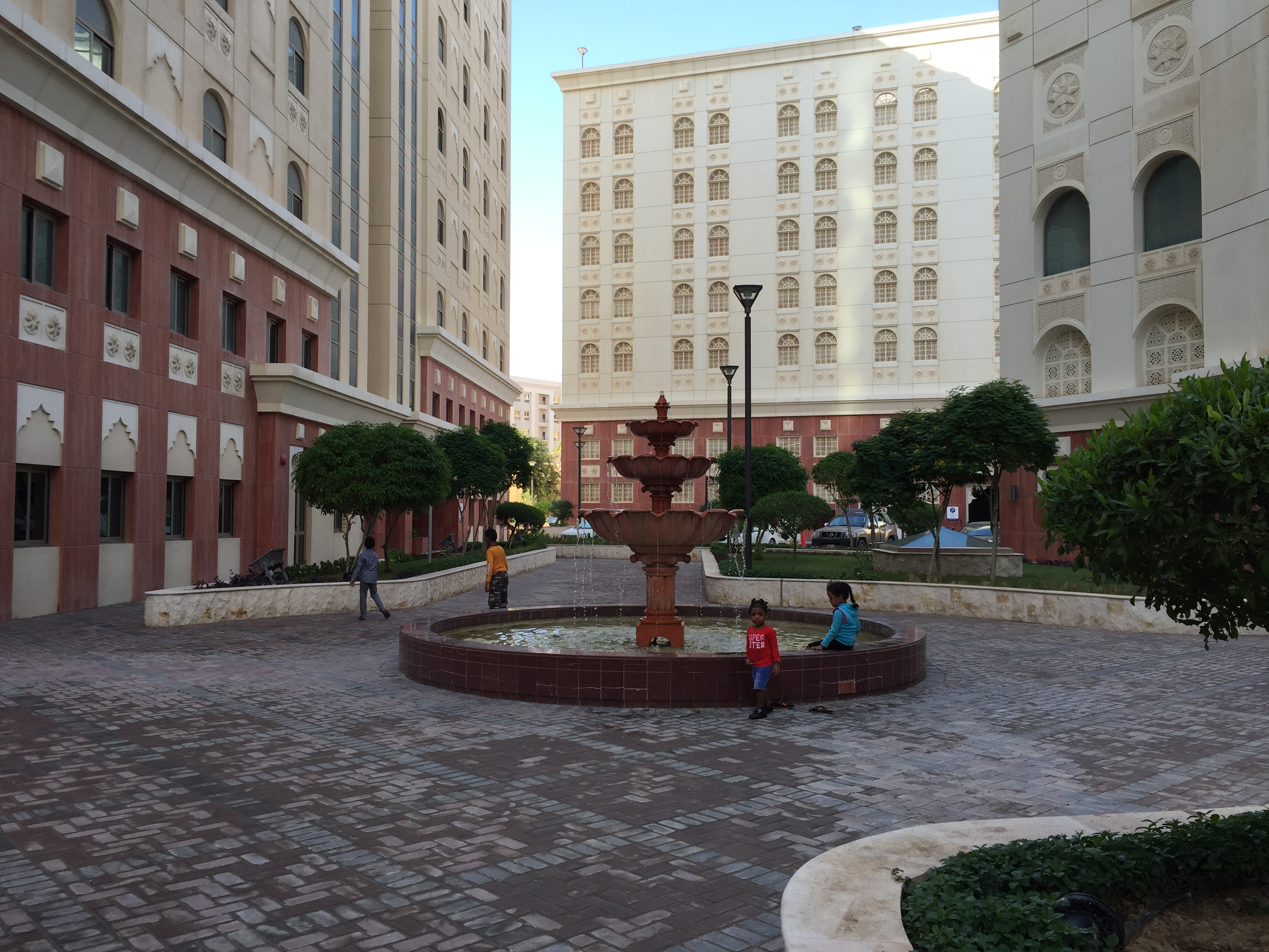 Central square of the Barwa Al Sadd residential development in Doha, Qatar.